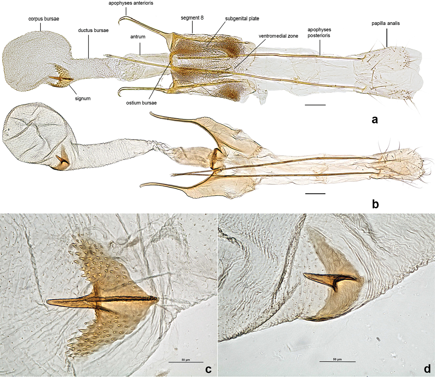 Female genitalia of Neopalpa species. a N. neonata (CNCLEP00077350, dissection MIC6530; CA: Santa Cruz Island) b N. donaldtrumpi (UCBMEP0201482, dissection VNZ241; CA: Imperial County); Close-up of signa c N. neonata (UCBMEP0201495, dissection VNZ239; CA: Imperial County) d N. donaldtrumpi (same as b). Scale bar 100 μm.